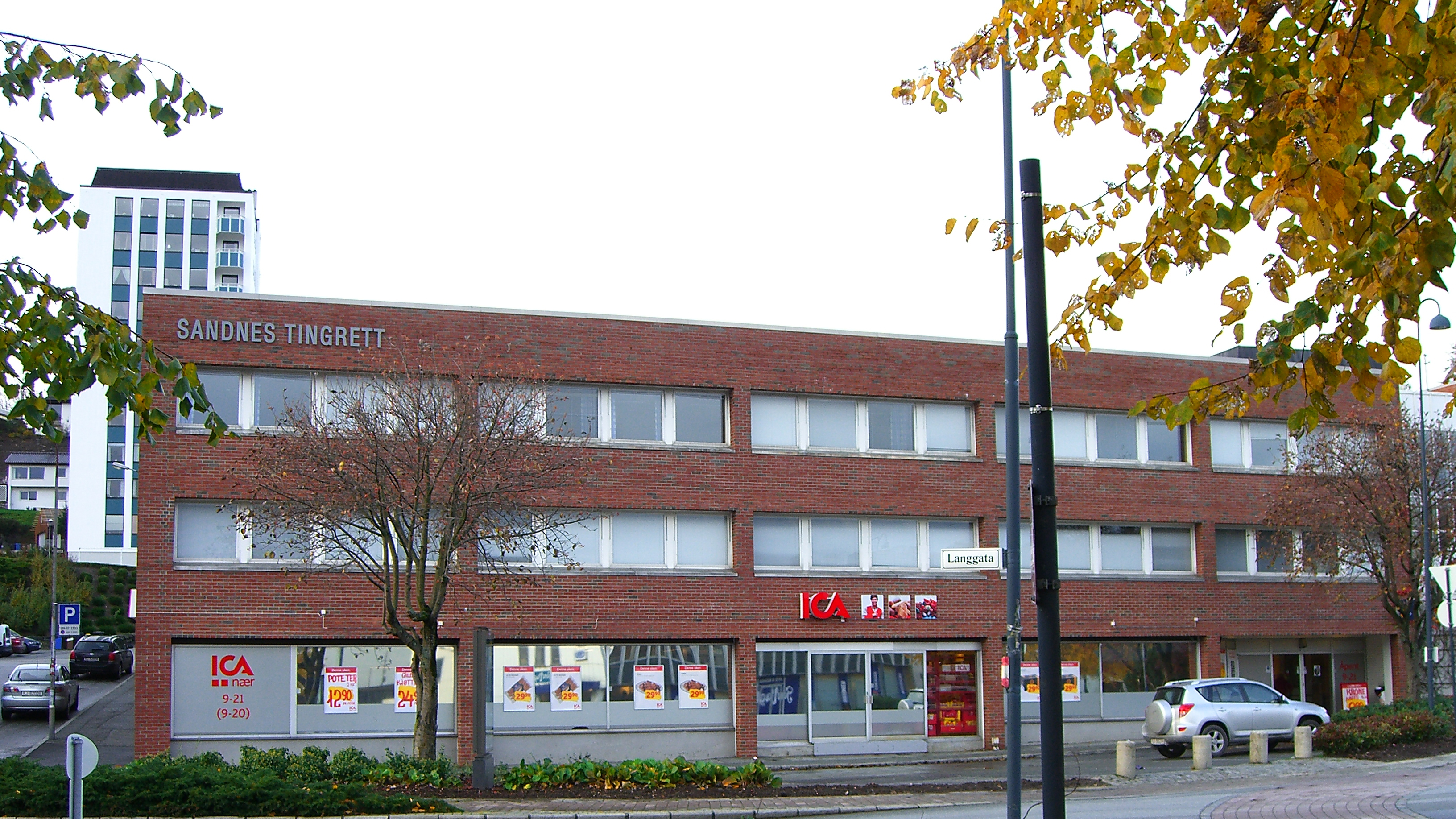 Old courthouse in Sandnes, Norway